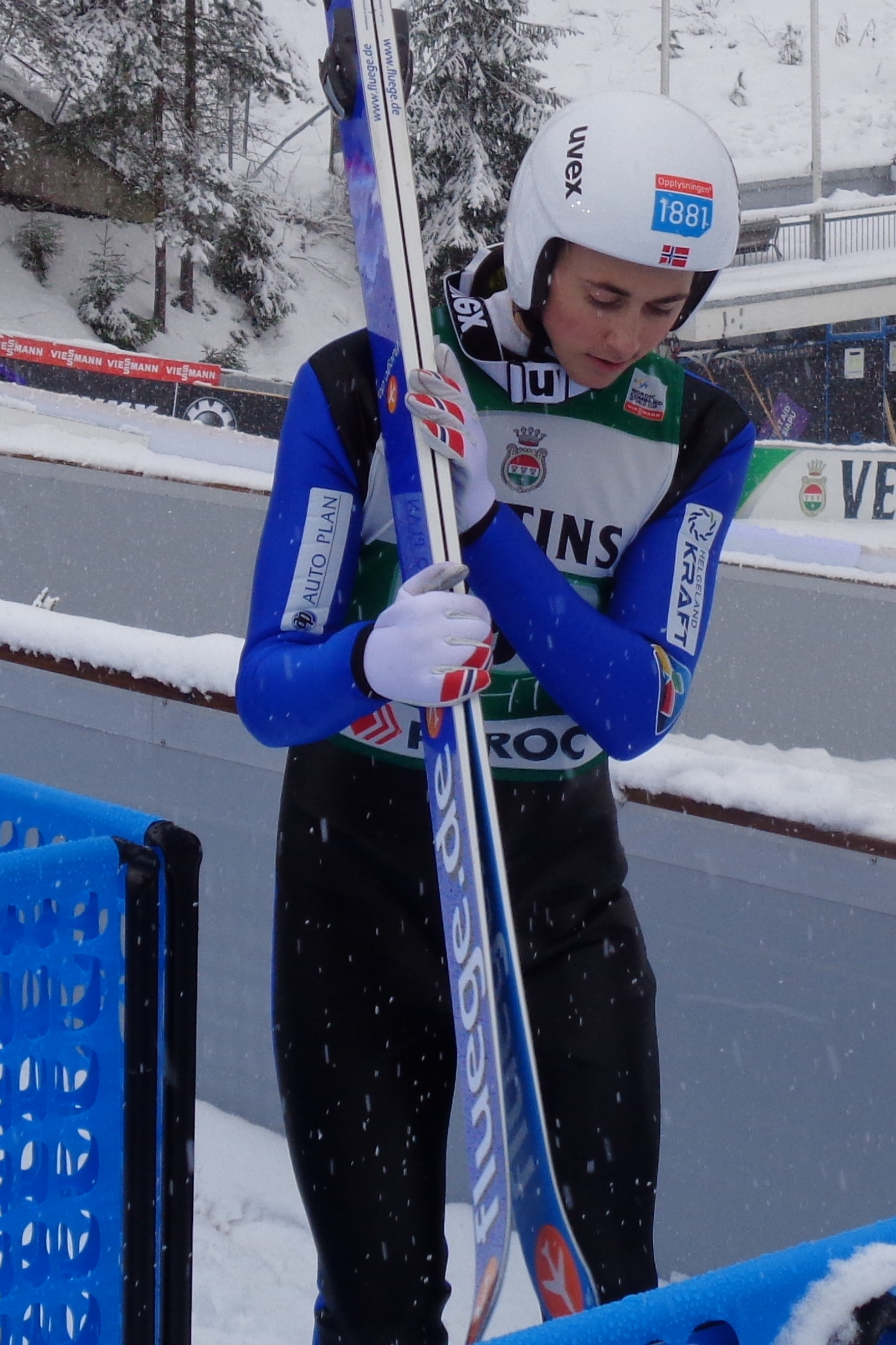 Norwegian nordic combined skier Jarl-Magnus Riiber during the Lahti Ski Games 2016.